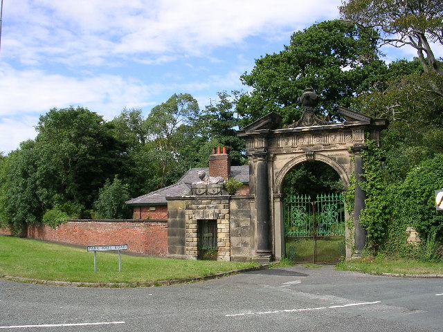 Gateway to Ince Blundell Park. An entrance to Ince Blundell Park and Hall, the family home of the Weld-Blundells from the 1630s until the 1960s. SD330021